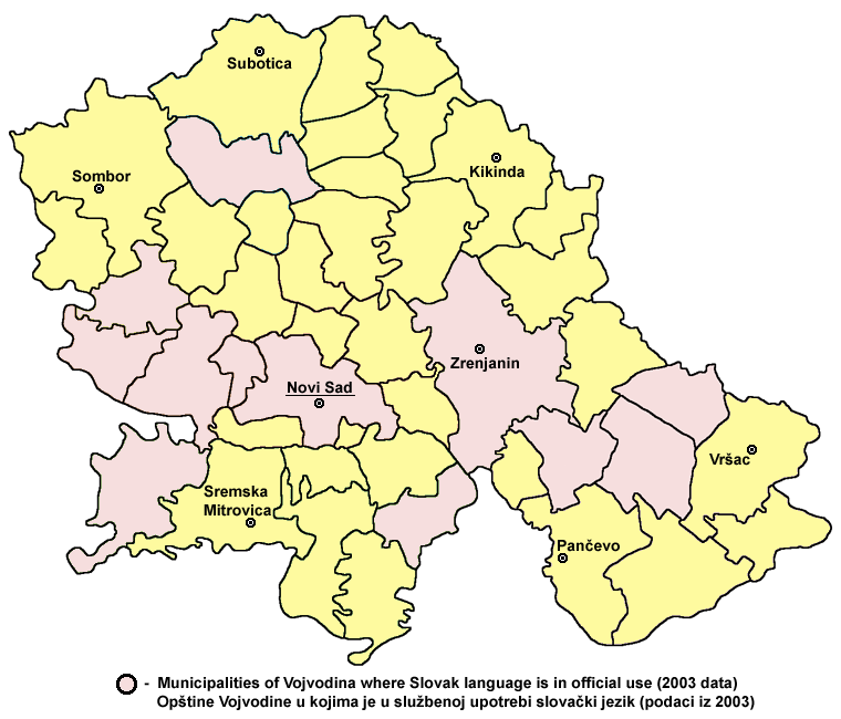 Official usage of Slovak language in Vojvodina (2003 data).